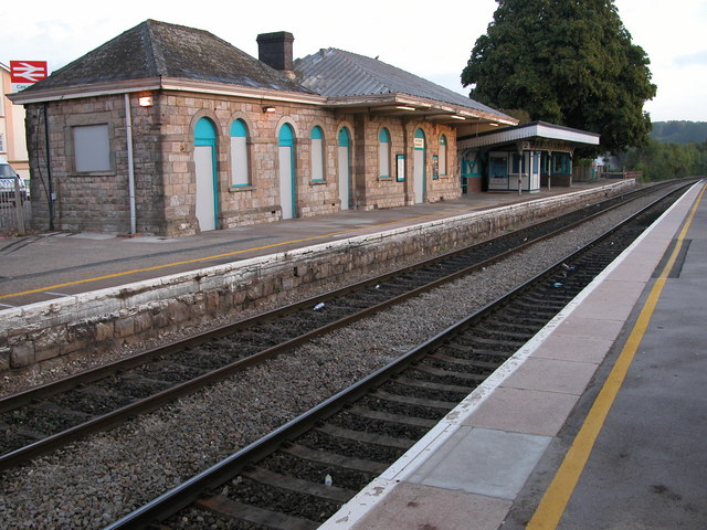 Chepstow Railway Station. A deserted station at seven in the morning